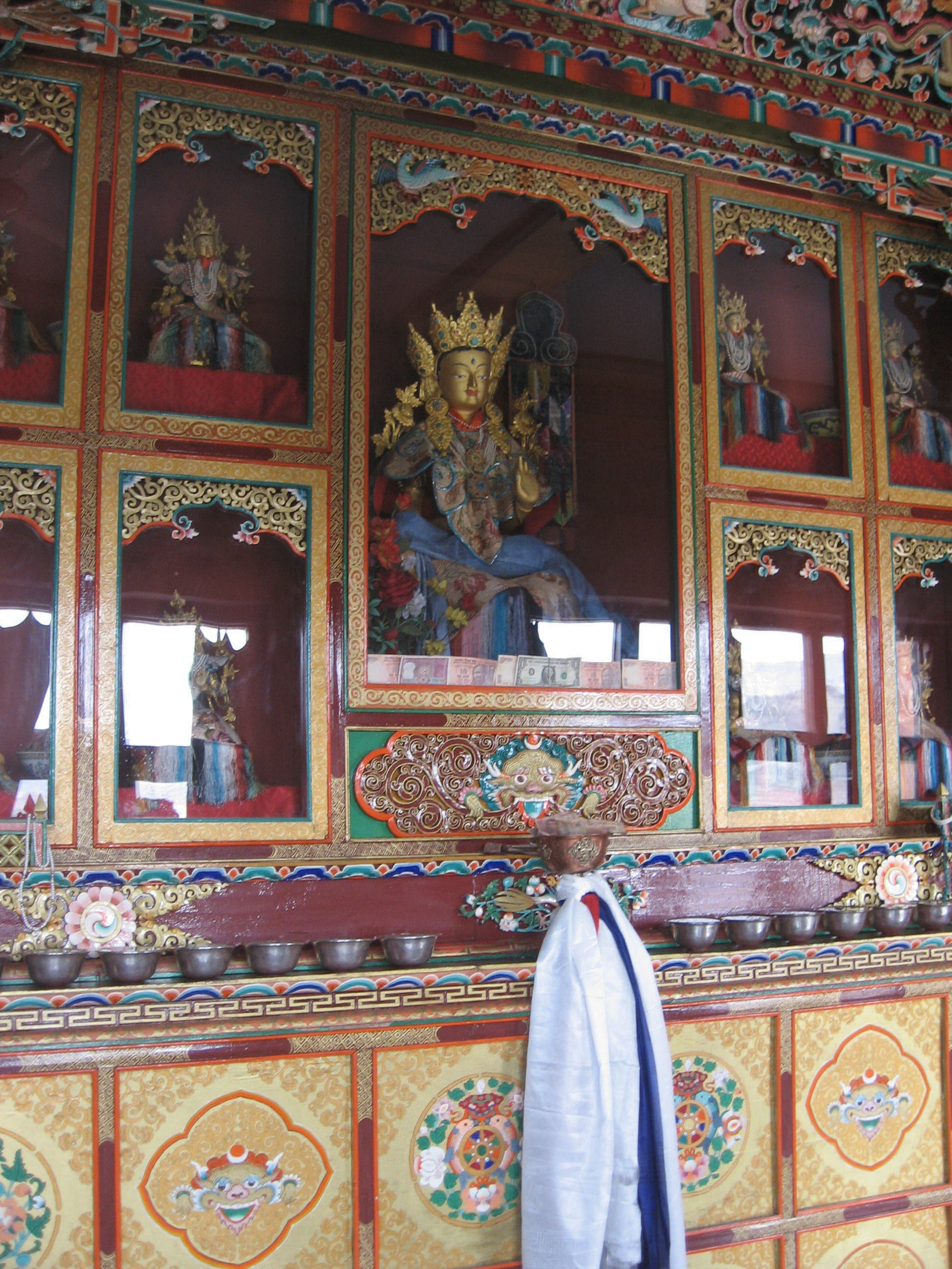 Thikse monastry